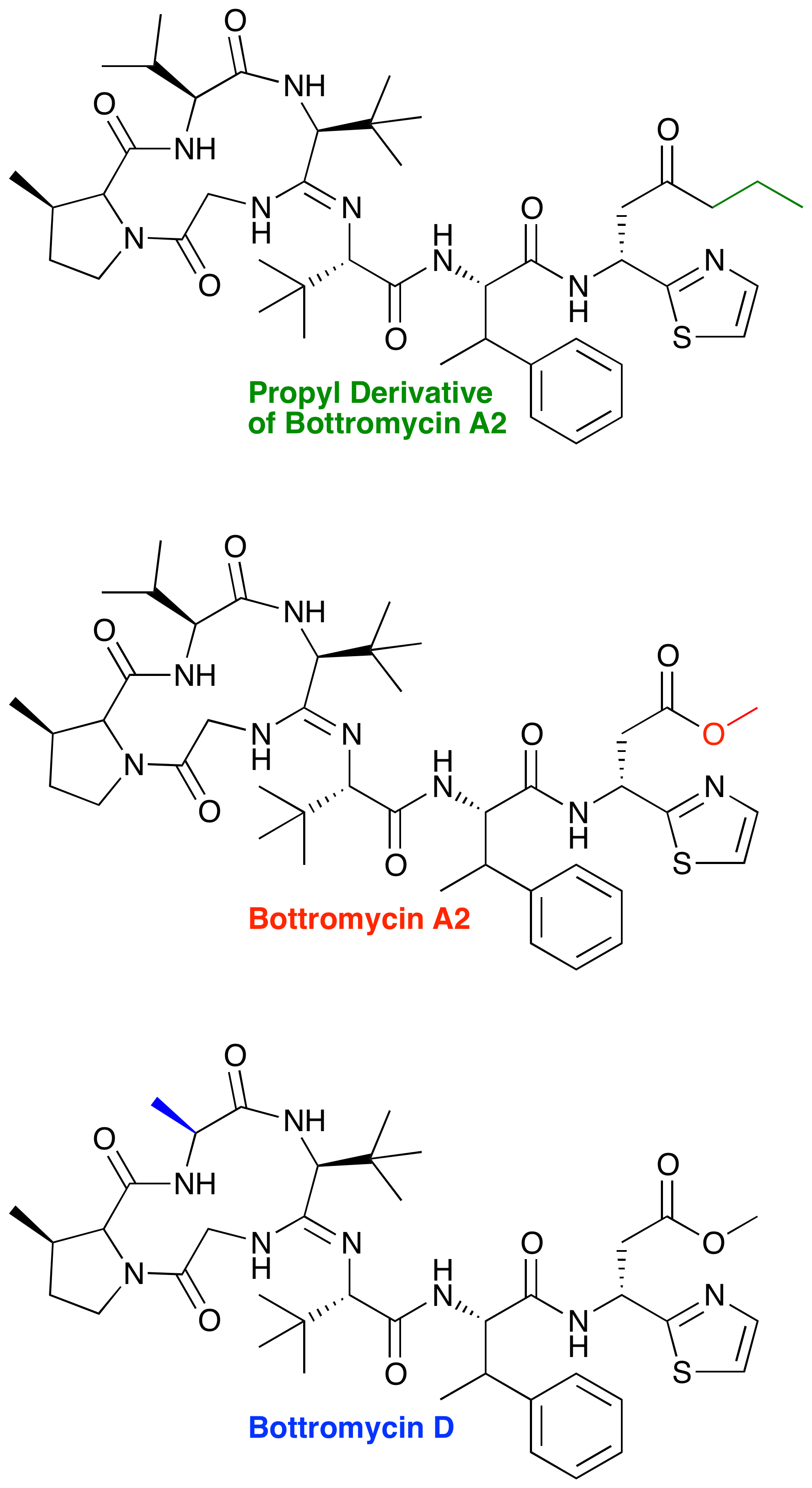 An illustration in the differences between bottromycin analogs